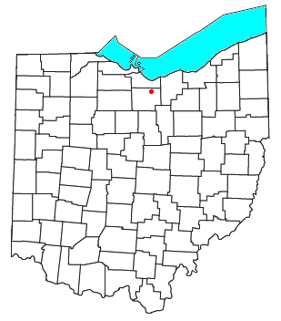 Locator map of the unincorporated community of Collins in Huron County, Ohio, United States.